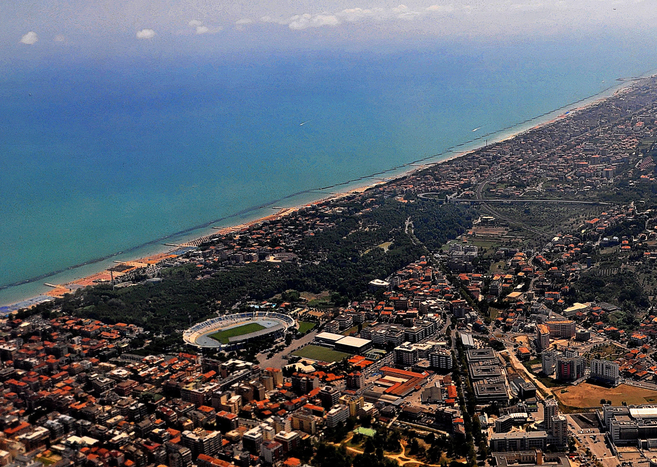 Fly Pescara London Wikimania 2014